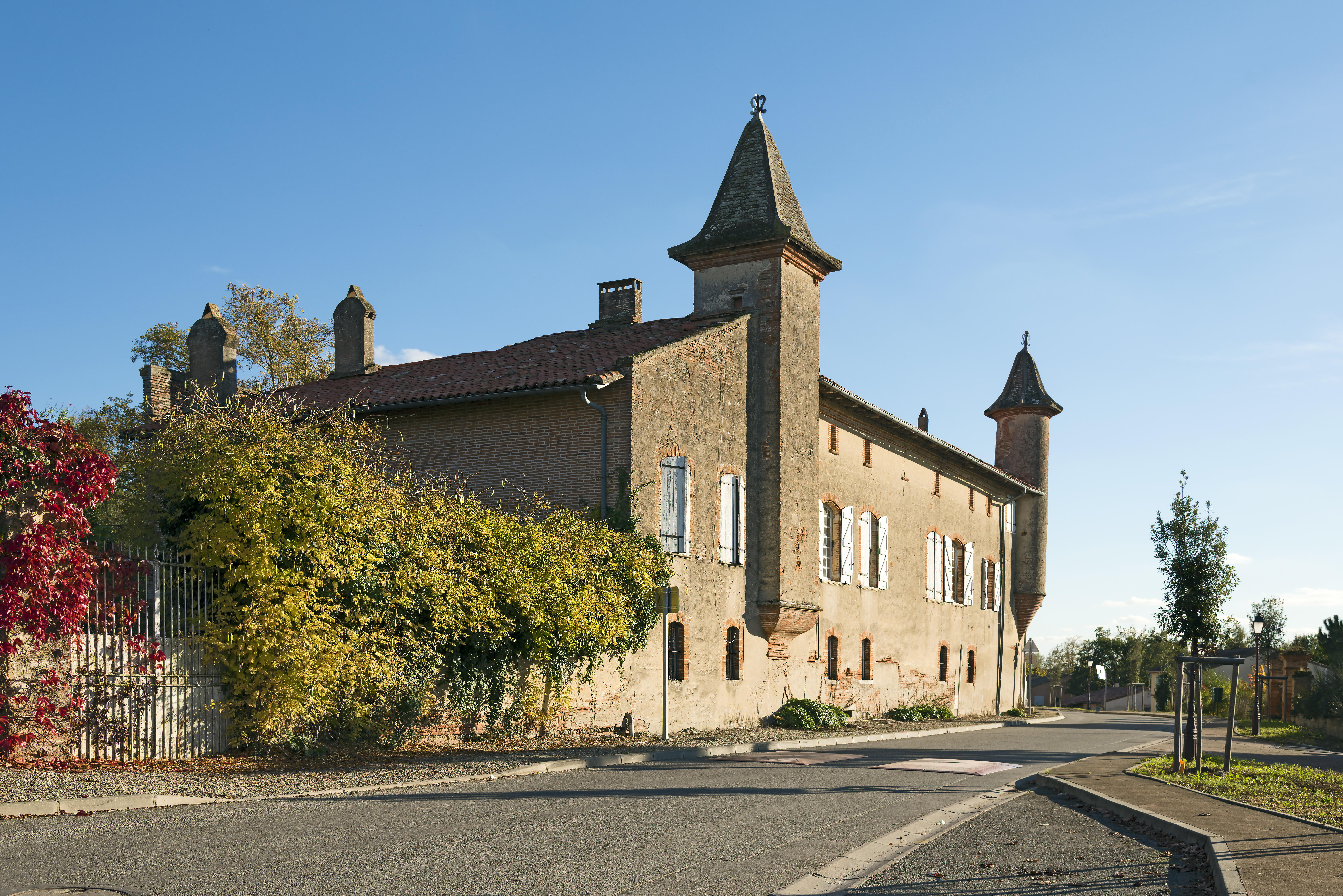 Peyrolade Castel from Daux, Haute-Garonne France